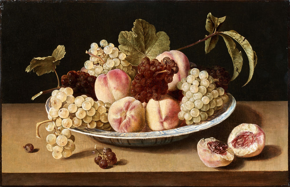 Still Life with peaches and grapes in a chinese bowl